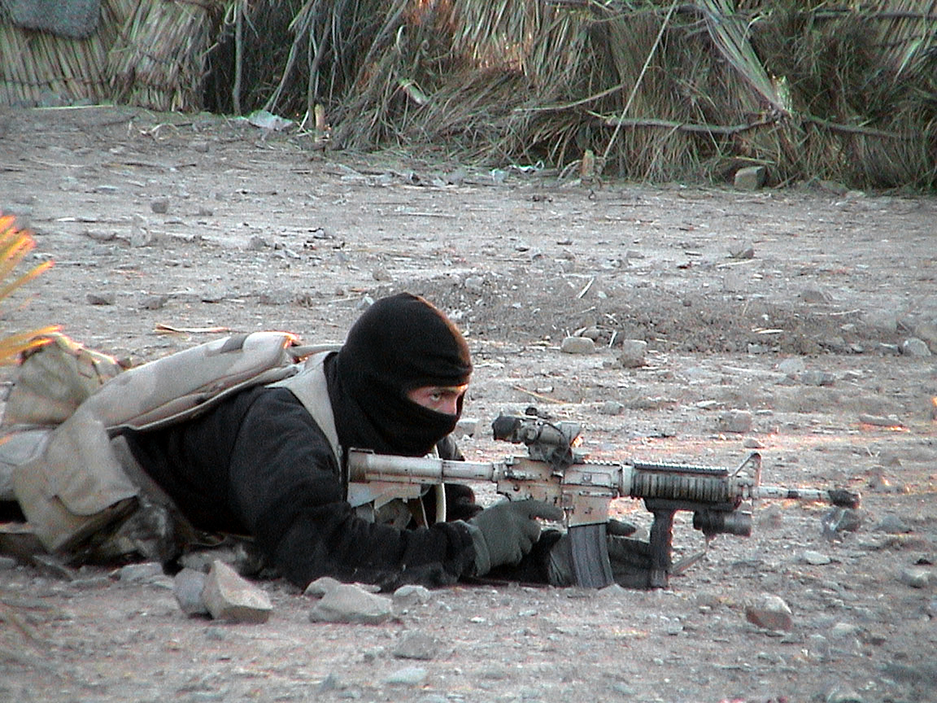 In January 2002, a member of a U.S. Navy SEAL team provides cover for his teammates while advancing on a suspected location of al-Qaeda and Taliban forces in eastern Afghanistan.